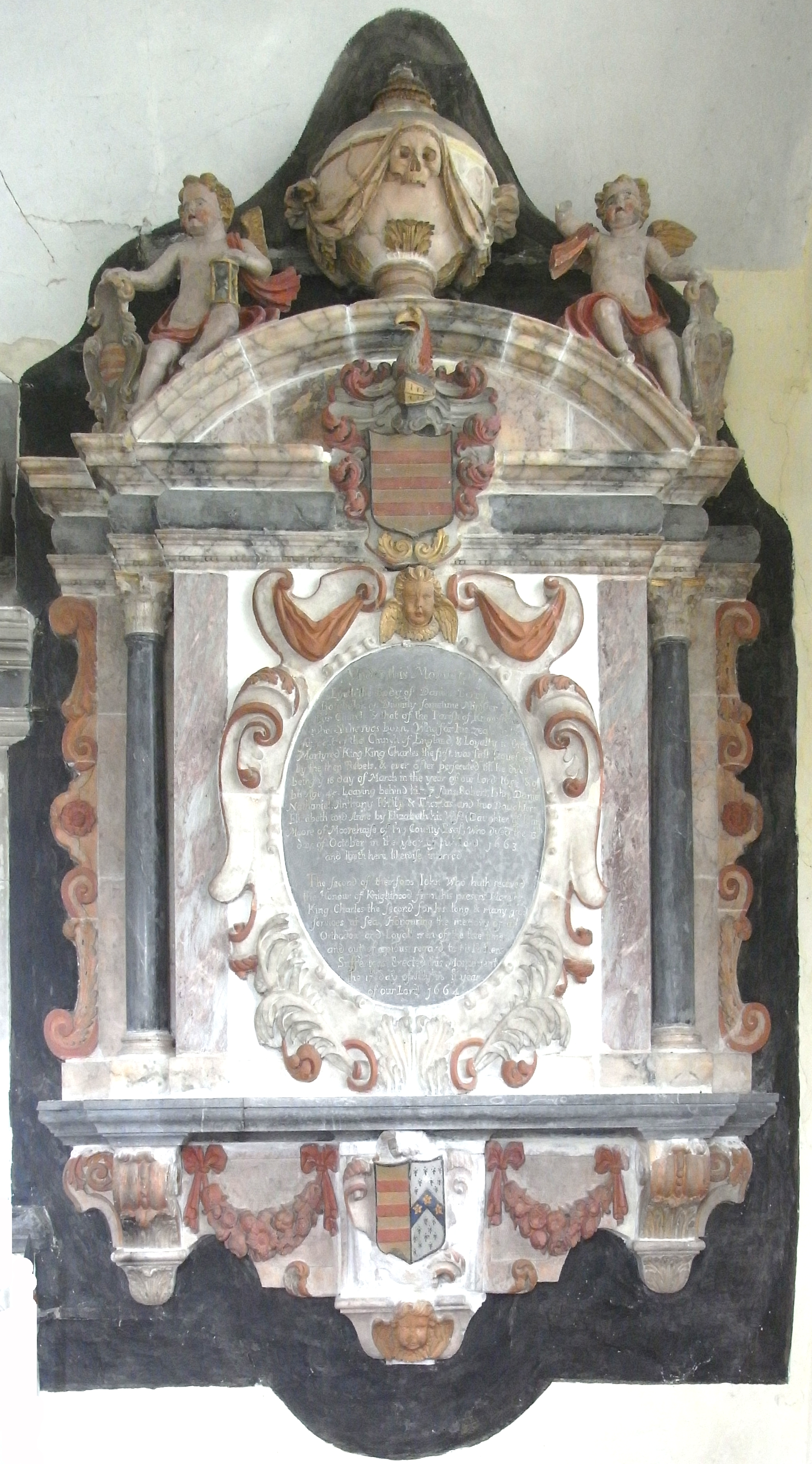 Mural monument erected in 1684 (per Prince, Worthies of Devon) by Admiral Sir John Berry (1635-1689) to the memory of his father Rev. Daniel Berry (1609-1654), Vicar of Molland cum Knowstone, and to his mother Elizabeth Moore, daughter of Sir John Moore of Moorehayes, Burlescombe, Devon. North wall of chancel, Molland Church, Devon.